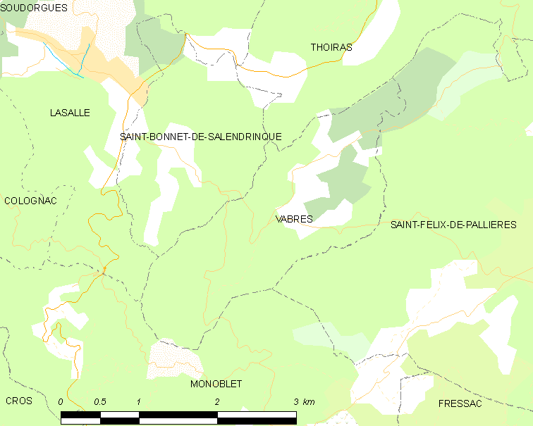 Map commune FR insee code 30335.png - Vabres (Gard)